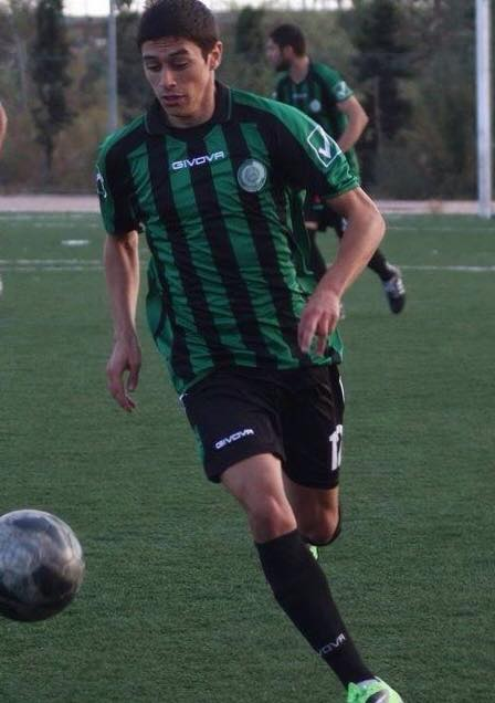 Ο Νίκωνας Σπηλιωτάκης αγωνιζόμενος στην Α.Ε. Μοσχάτου